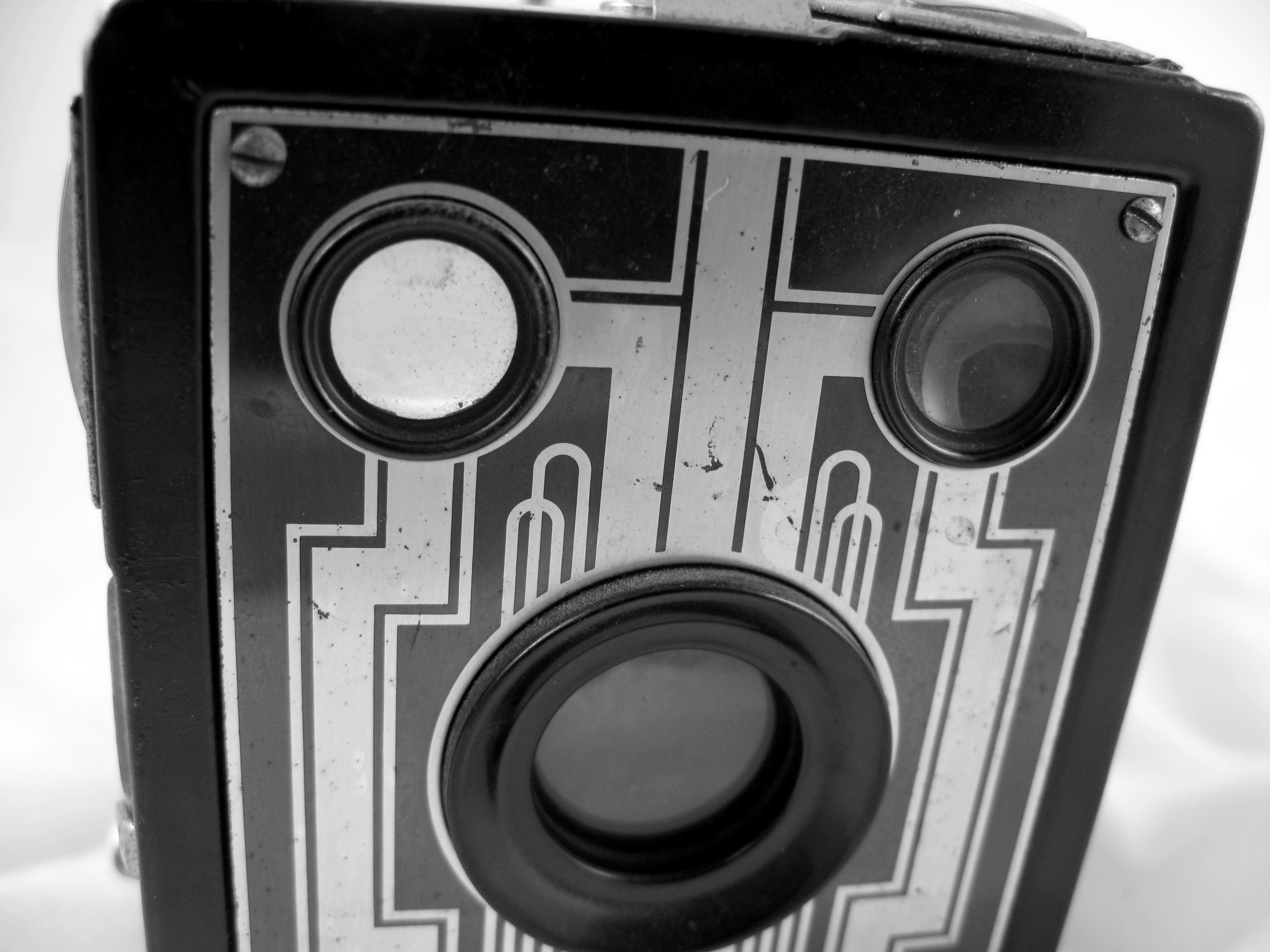 Say hello to the 1936 Kodak Brownie Six-16!